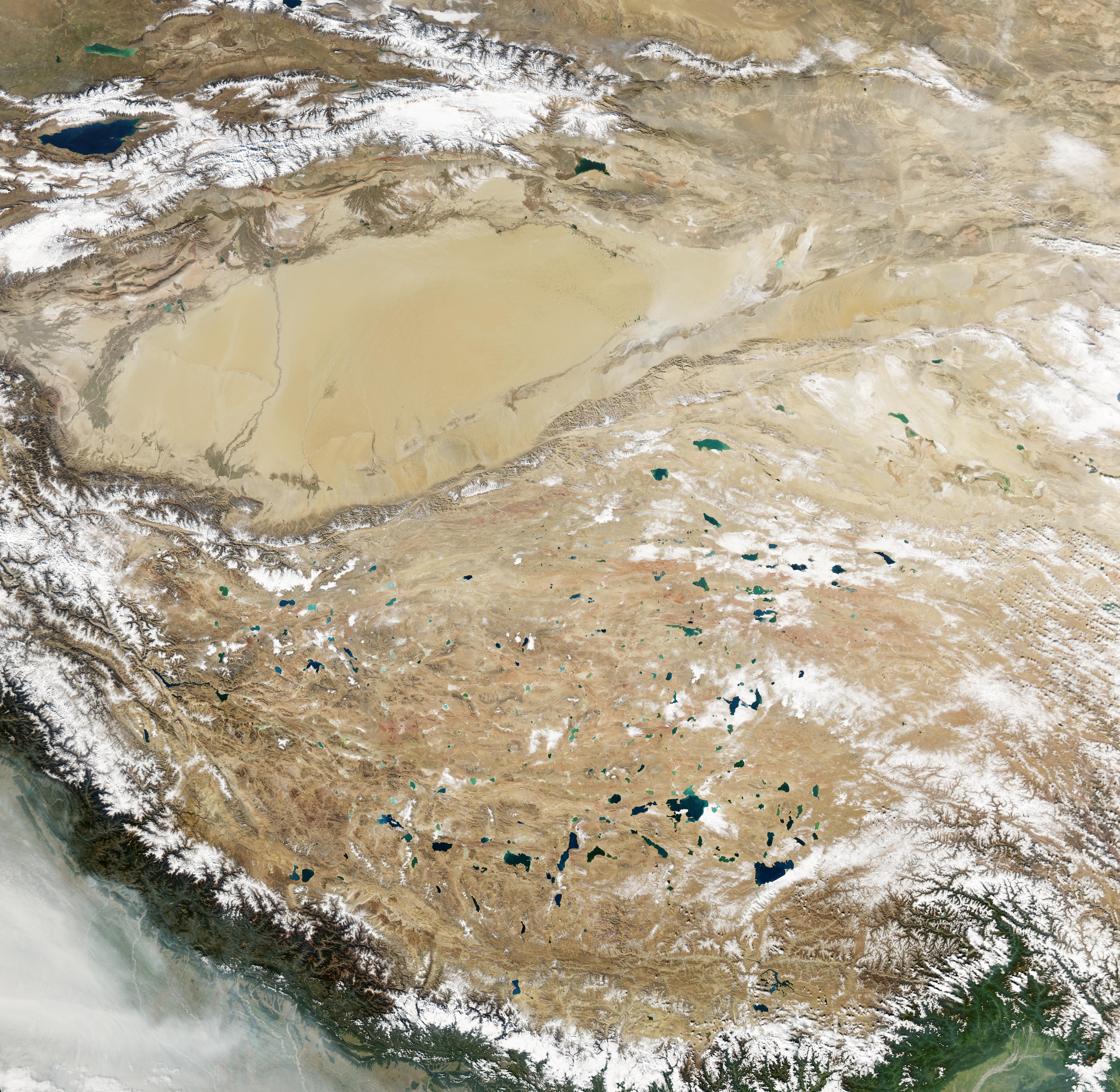 Natural-colour image of the Tibetan Plateau. The Qinghai-Tibet Plateau not only gives rise to most of Asia’s major rivers, it also holds a constellation of salt- and freshwater lakes. Due to differences in depth, sediments, and microscopic organisms in the various lakes, they collectively present a myriad of greens, blues, and teals when viewed from above. Resembling bits of abalone shell, the lakes glimmer in assorted jewel tones. The lakes in this region typically lack outlets, allowing the accumulation of minerals that, combined with other features, influence lake colour. The lakes vary widely in surface area and shape. Two of the largest in this scene are Siling Co and Nam Co. One of the most irregularly shaped lakes is Ngangla Ringco. Nam Co ranks among the world’s highest-altitude salt lakes, with a lake surface at 4,718 meters. It measures roughly 79 by 25 kilometres and, except for areas along the south-western and north-eastern margins, the lake appears nearly uniform blue. Siling Co’s shape and colour vary more than Nam Co’s. The lake’s blue-green hue ranges from light (in the north and east) to dark (in the south and west). Fringing the lake are smaller water bodies, which all used to be part of a larger lake. Lying to the west, Ngangla Ringco is one of the most unusually shaped water bodies on the Qinghai-Tibet Plateau, with colours ranging from turquoise to sapphire. Small islands dot the surface in the west, and a large island sits in the lake’s eastern half.